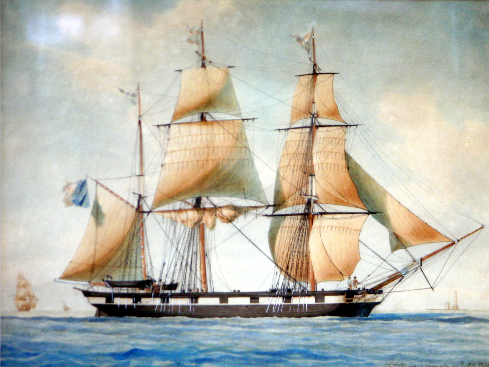 Sail ship Philantrope.